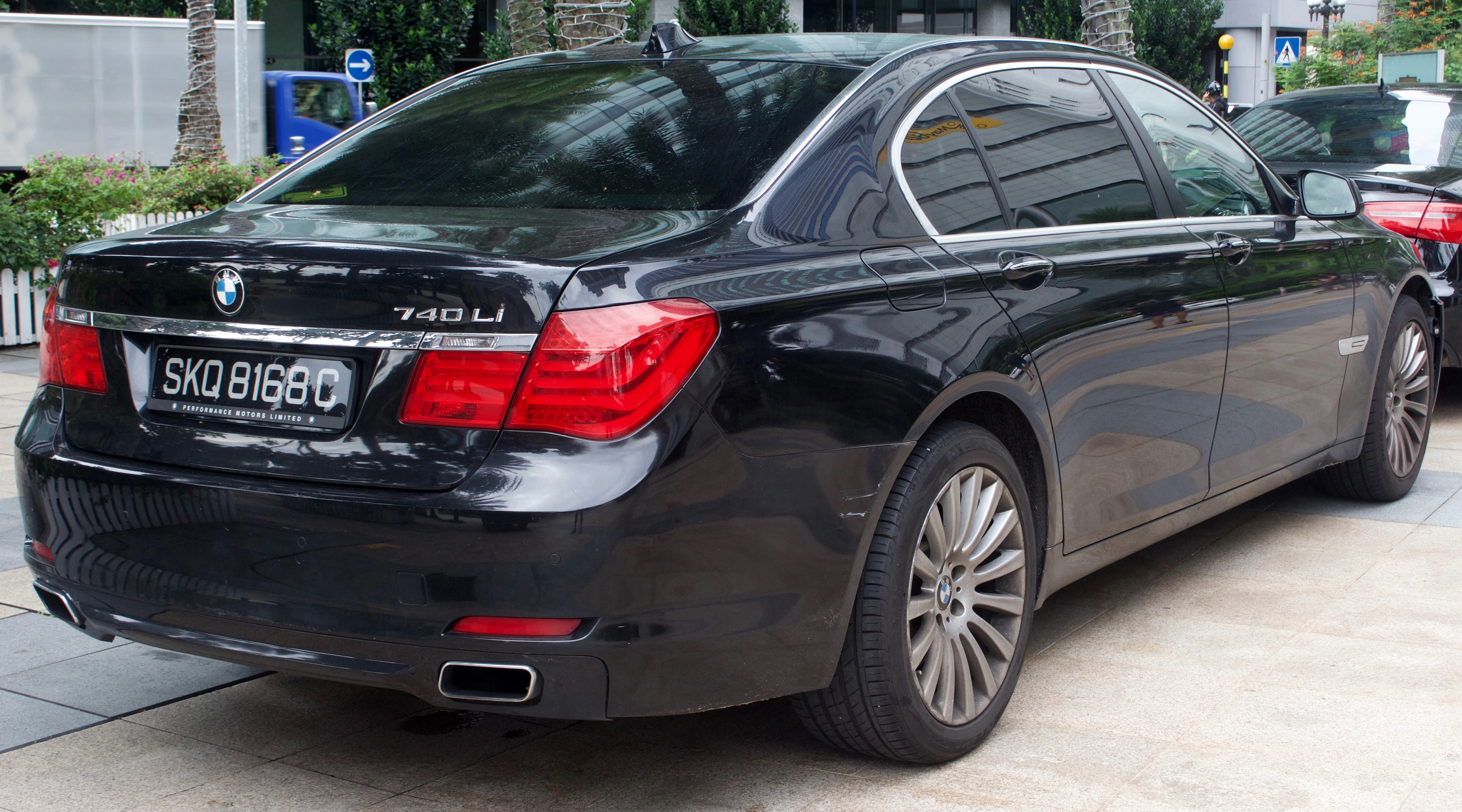 2008-2011 BMW 740Li (F02) sedan. Photographed in Singapore.